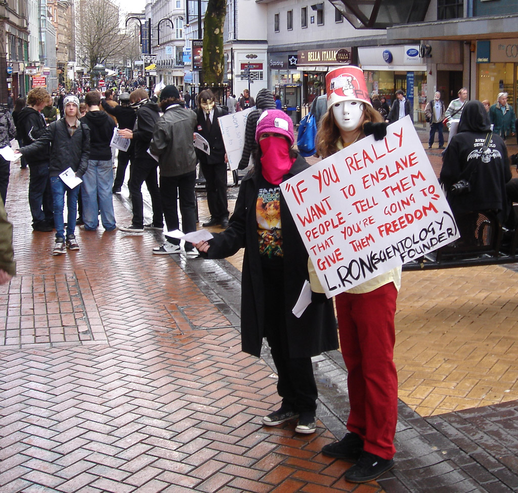 Interestingly dressed Anonymous protestors greet passers-by with a quotation from L Ron Hubbard and some anti-Scientology leaflets.